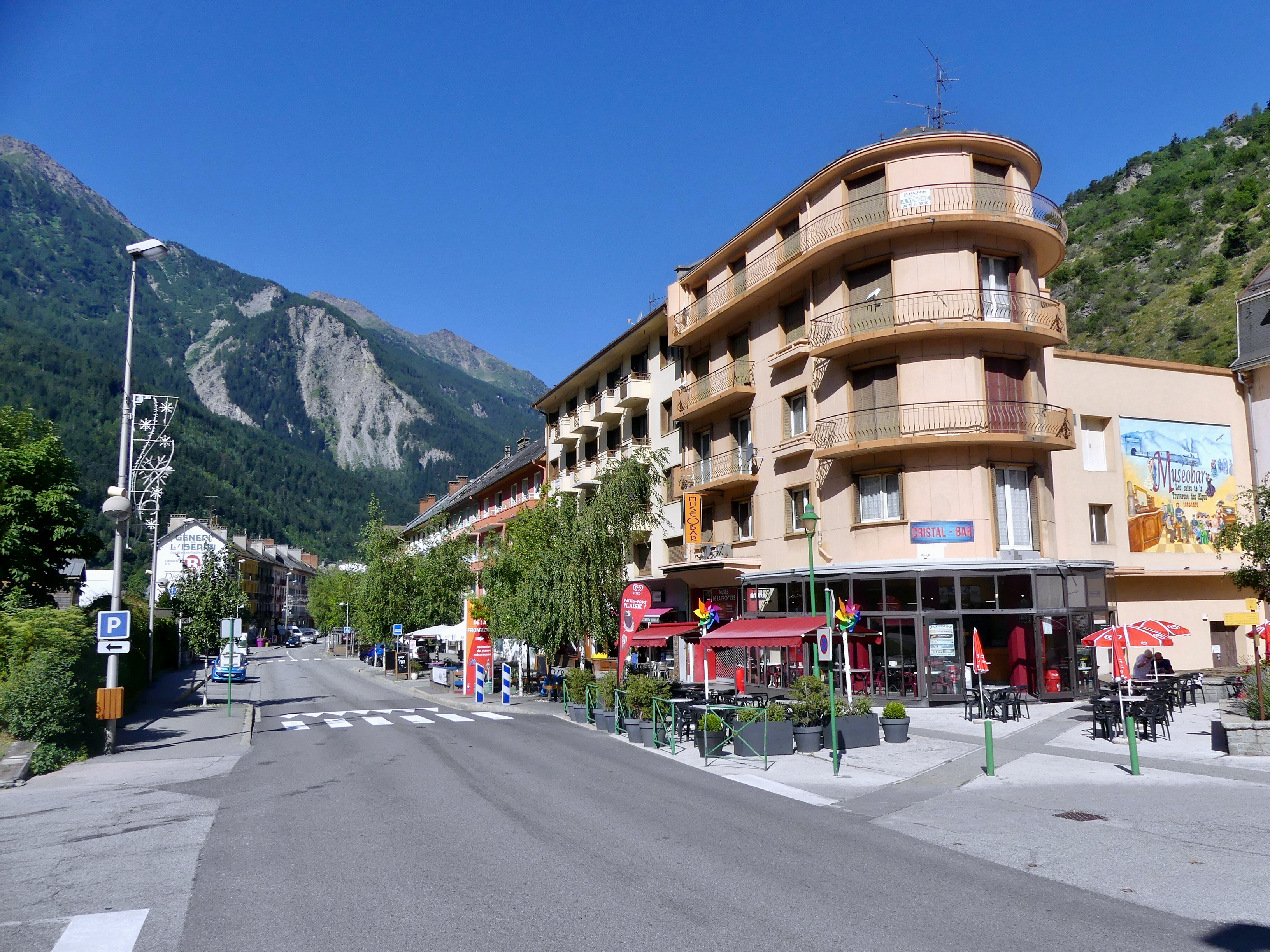 Sight of Modane-Gare, neighborhood in Modane near the international railway station, in the Maurienne valley of Savoie, France.